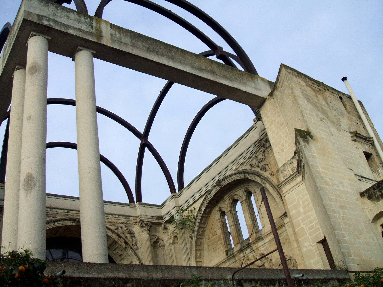 Ruina consolidada del antiguo Convento de San Francisco de Baeza (Jaén, Andalucía, España)